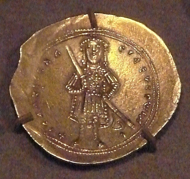 Gold Histamenon of Isaac I Komnenos, 1057-1059